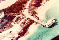 Image depicting Norman's Cay, Bahamas in 1981.